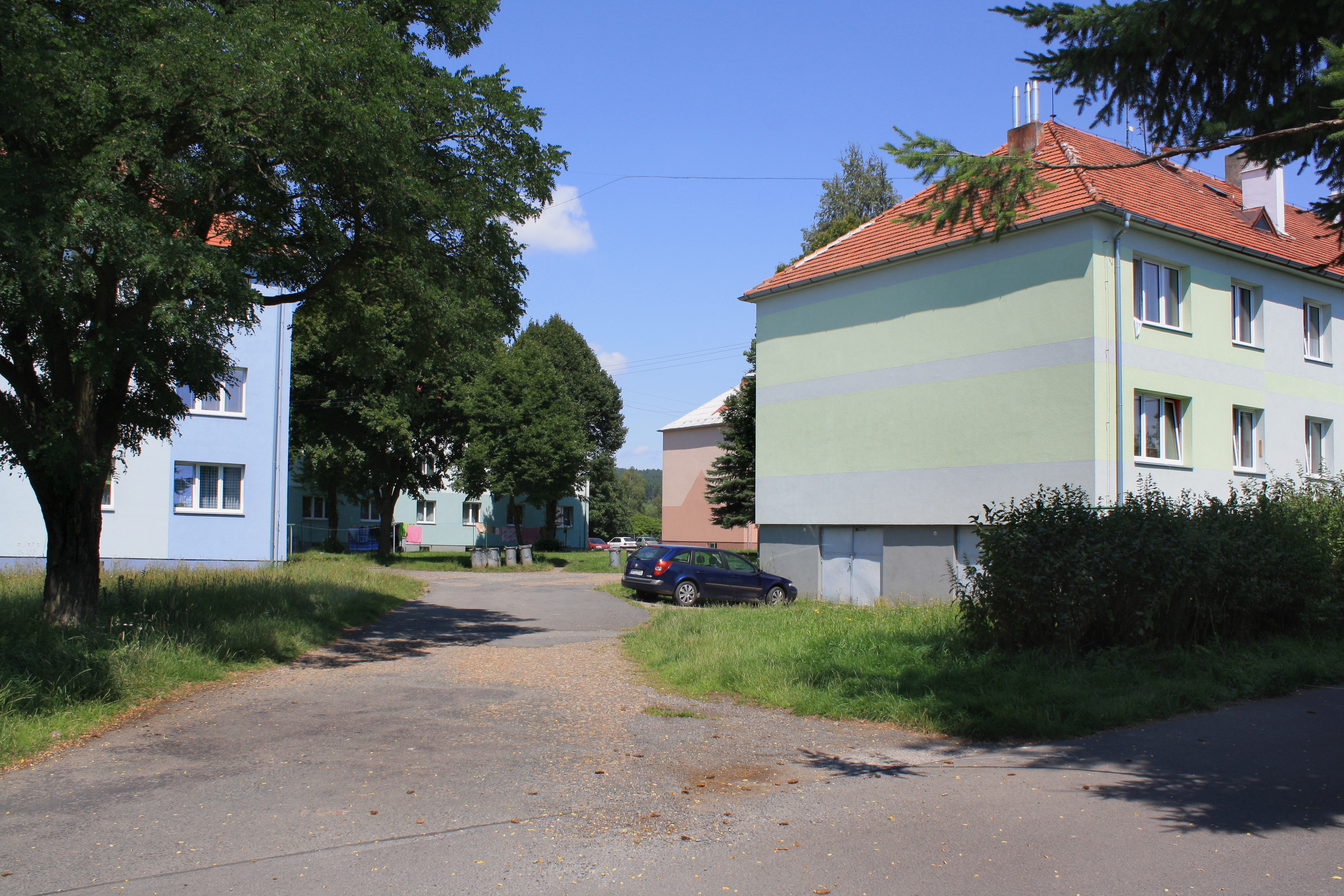 Small housing estate in Strašice, Czech Republic